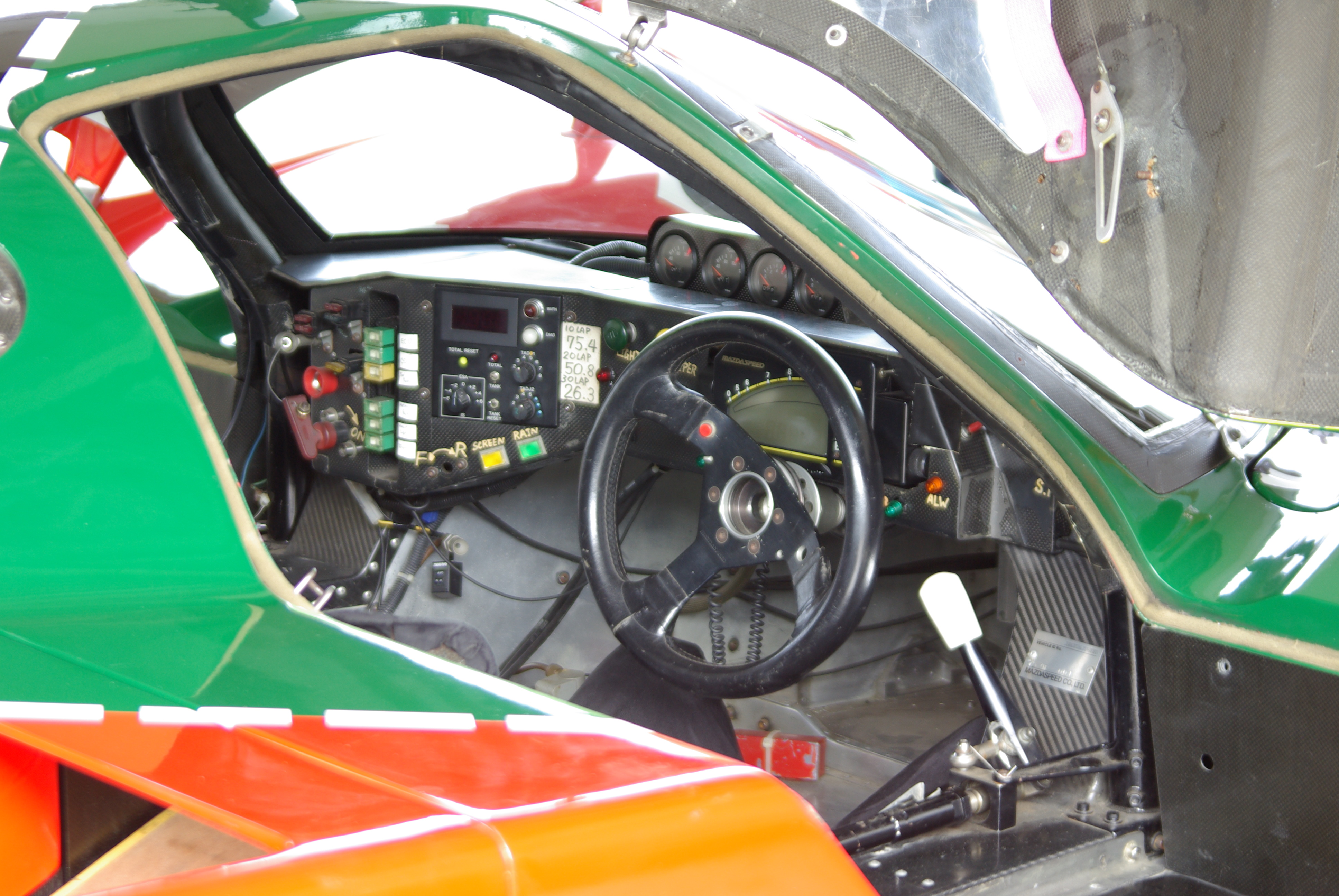 The cab of Mazda 767B